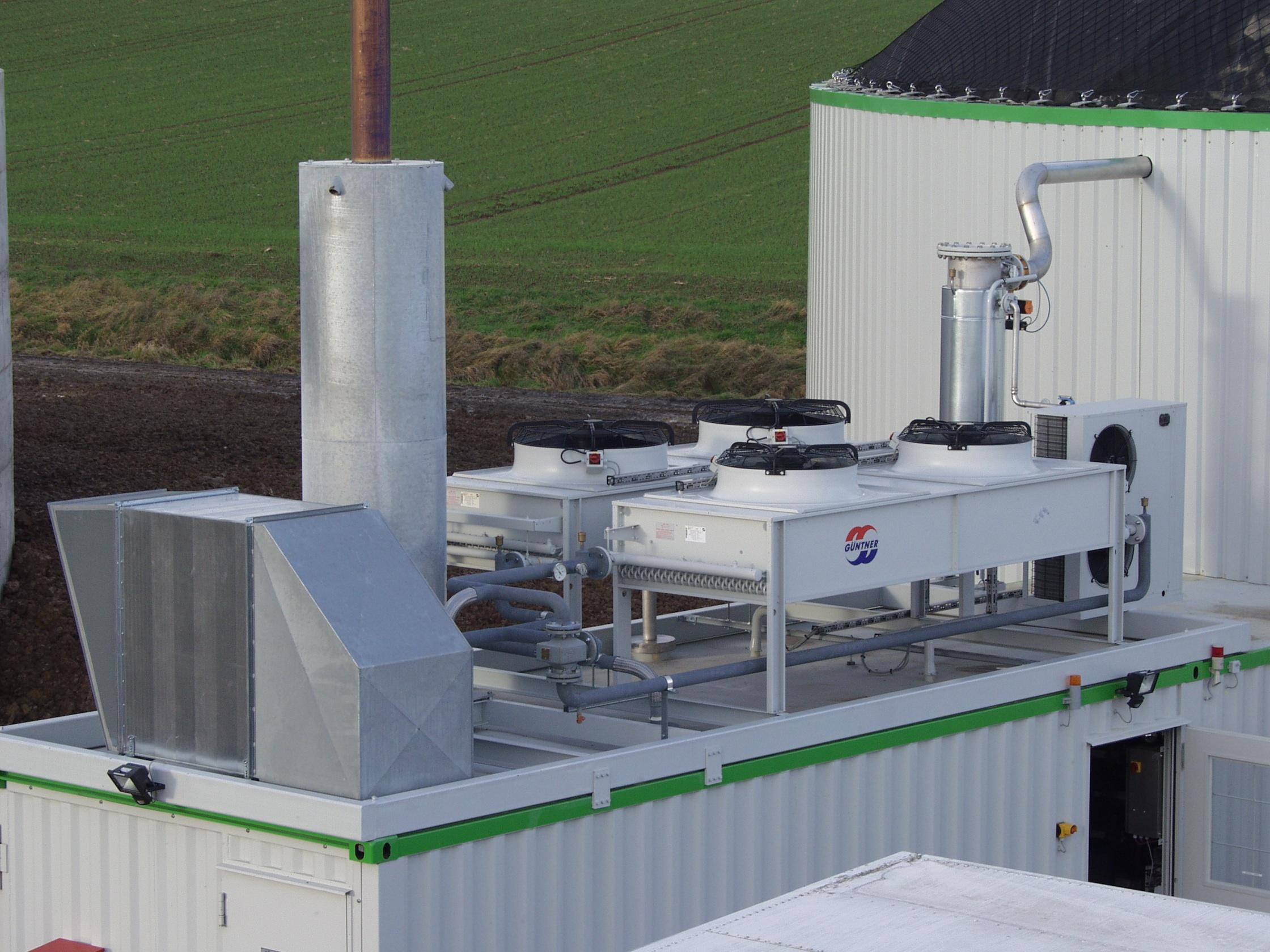 backup cooling device / emergency cooler on the roof of a container-CHP station using biogas produced in the adjacent fermenter